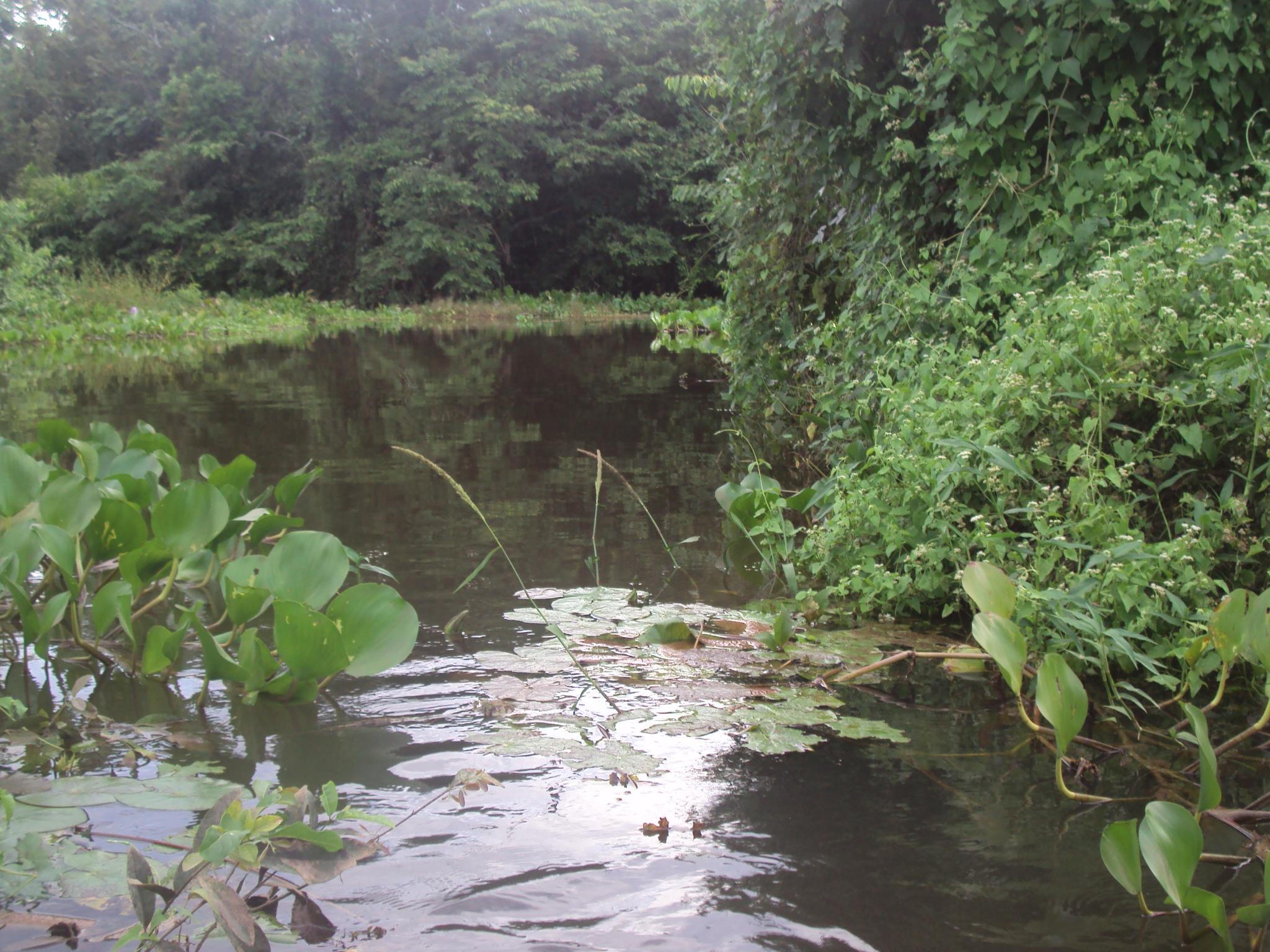 The Cuiabá River, passing through the Pantanal mato-grossense park wetlands.